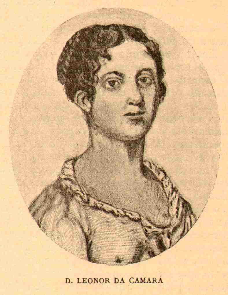 Leonor da Câmara, 1st Marquise of Ponta Delgada (1781-1850)